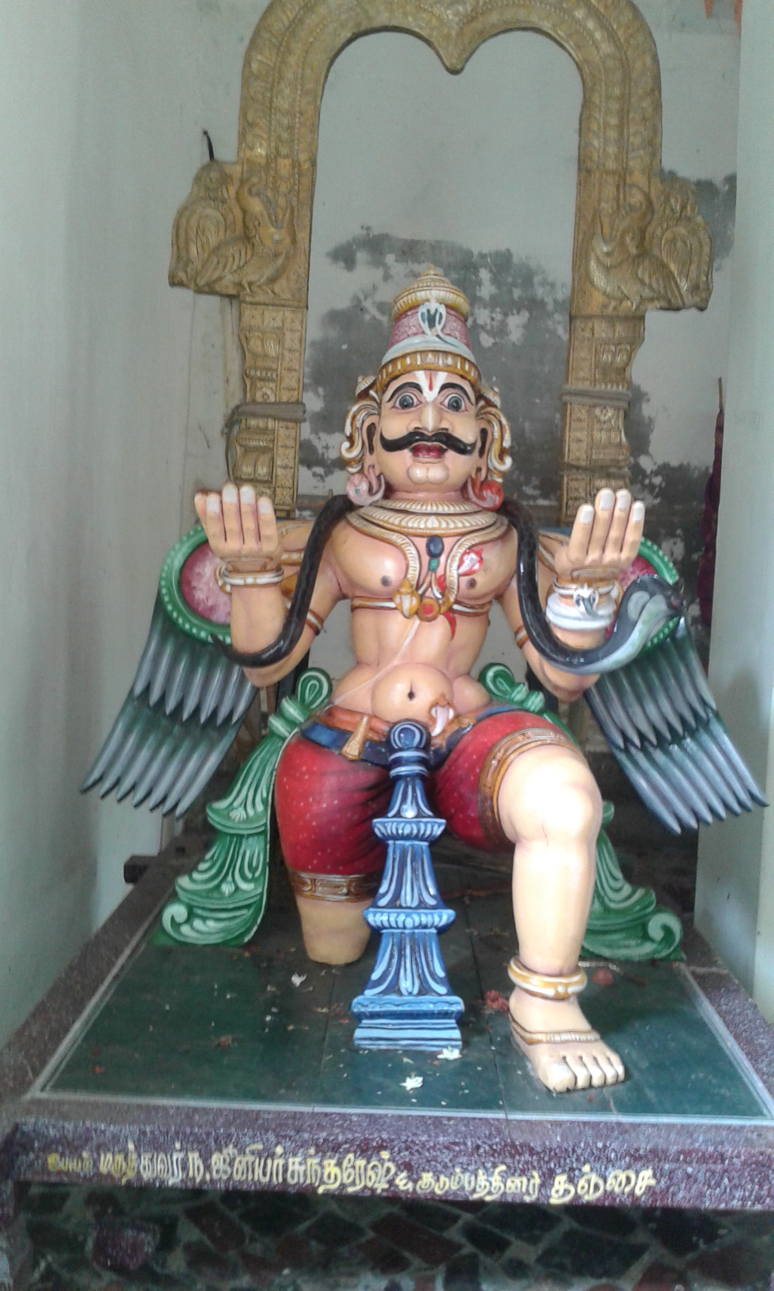 Arimeya Vinnagaram - Kuamadukoothan